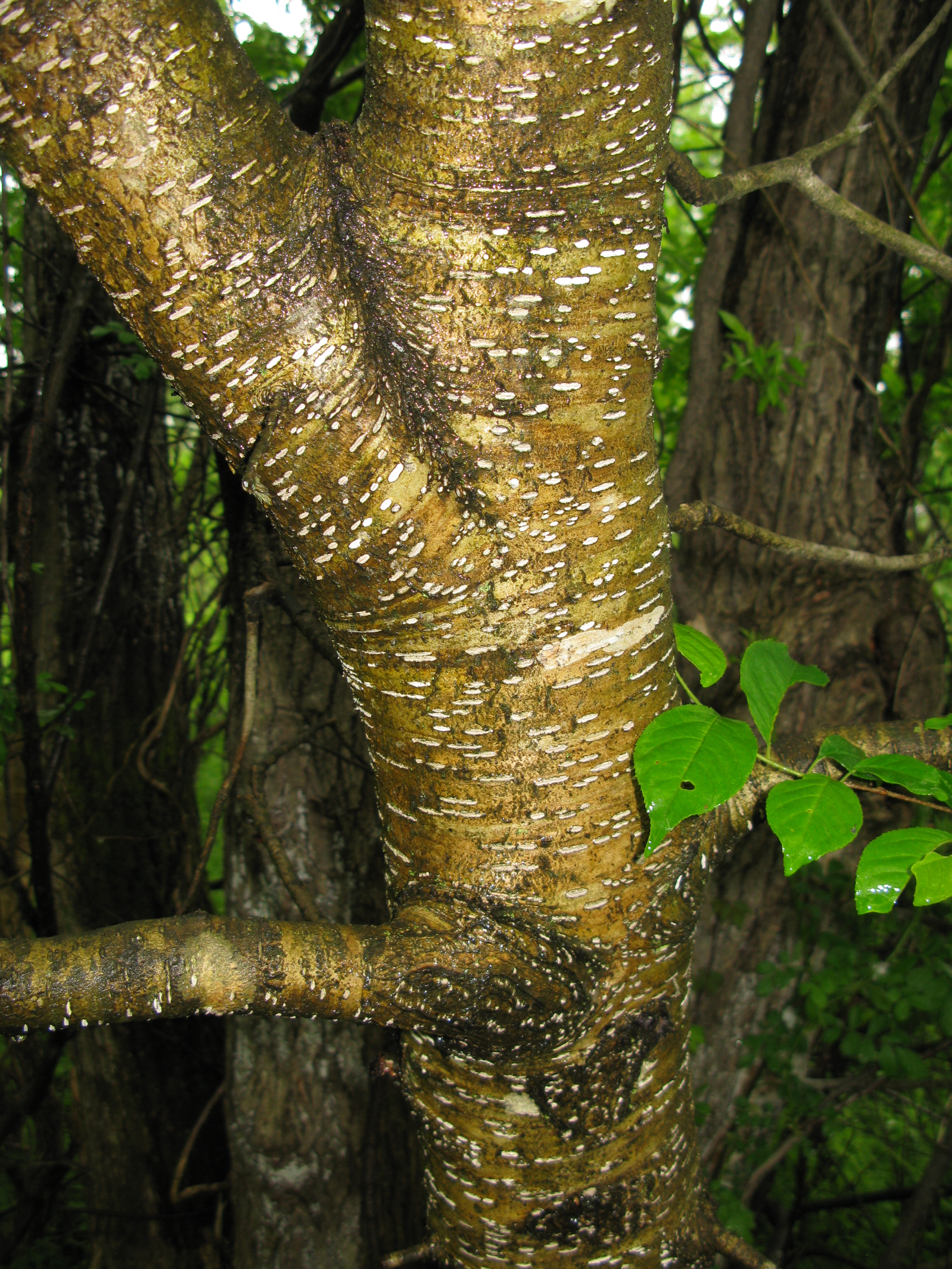 Prunus buergeriana, Aizu area, Fukushima pref., Japan